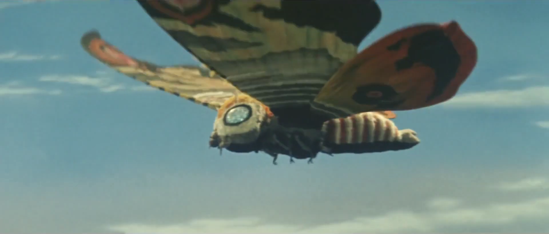 Scene from Mothra.